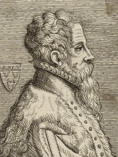 Portrait of William Bullein (c.1515–1576), English physician.